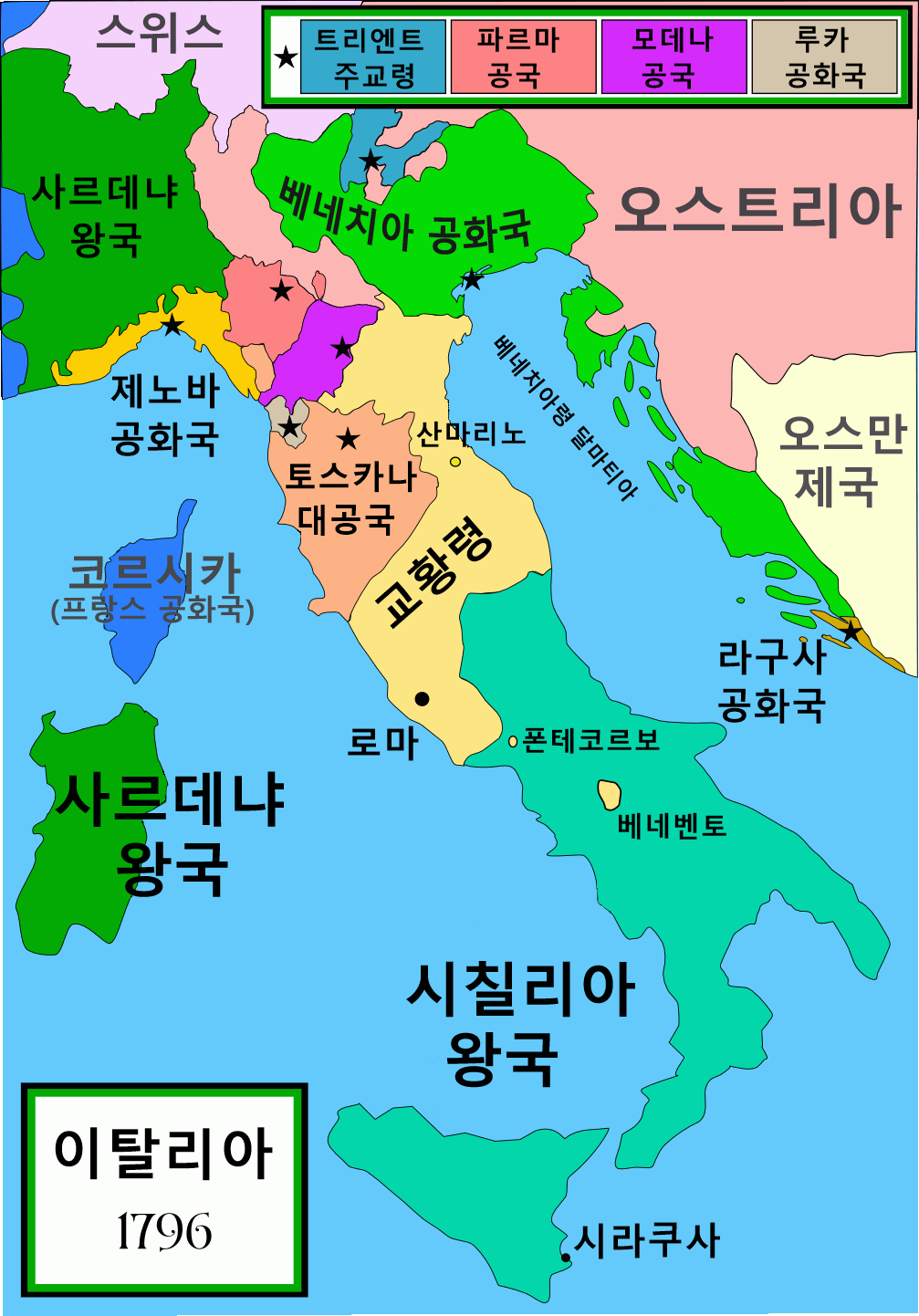 A political map of Italy in early 1796, before the Napoleonic wars, created by MapMaster.